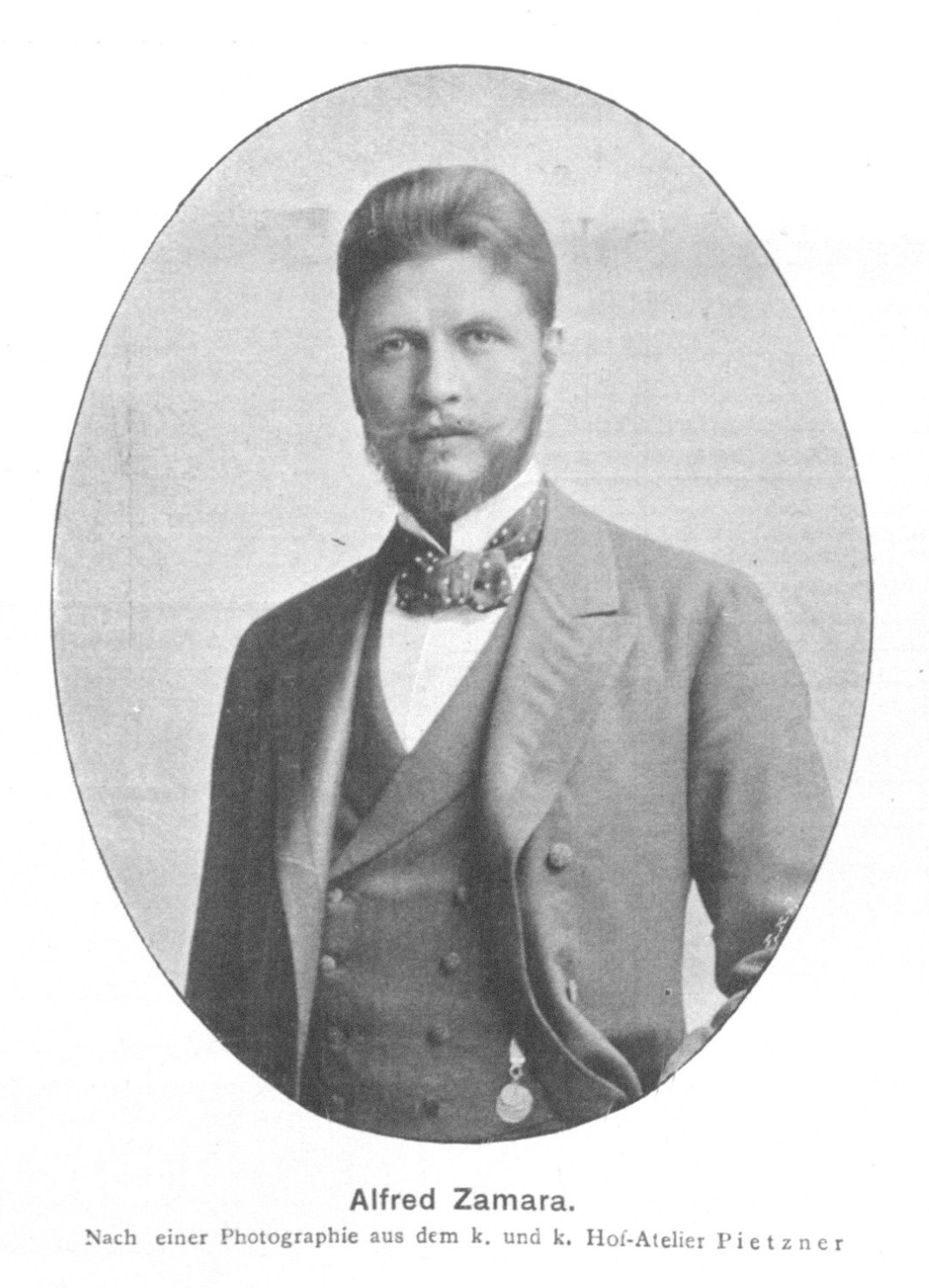 Portrait of Alfred Zamara (1863-1940), Austrian composer.